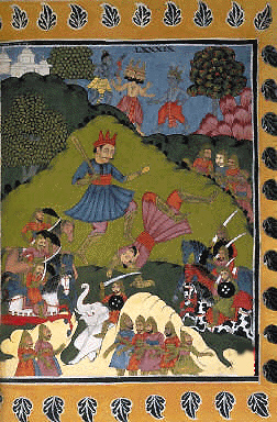 Bhima Killing Duryodhana Persian Mahabharata, Muradabad, c. 1761